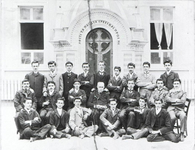 Phrontisterion of Trapezous Graduates with their headmaster, Matthaios Paranikas, 1903